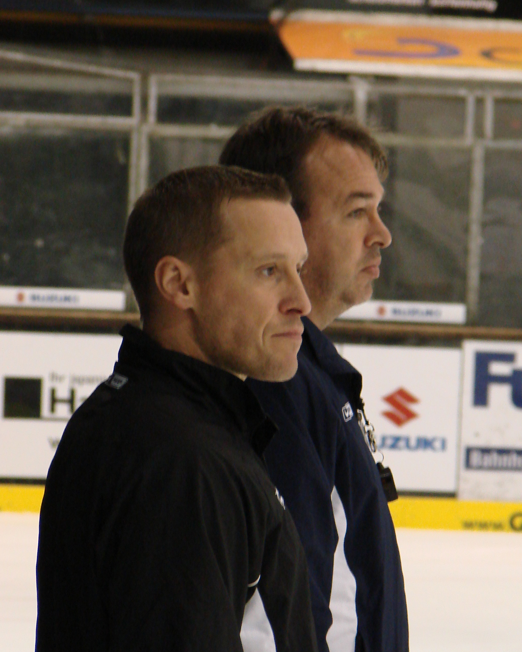 Stéphane Richer (back) and Fabian Dahlem (in front)